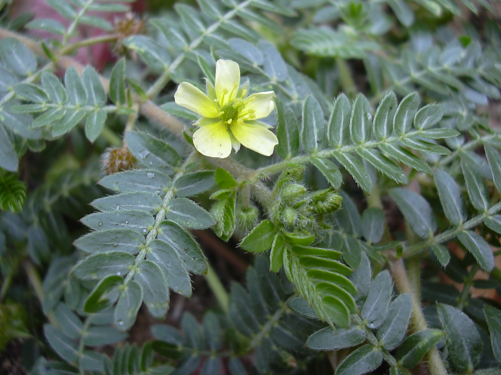 Tribulus terrestris (flower). Location: Maui, Kahului